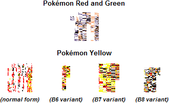 Other variants of the infamous MissingNo. glitch in the Pokémon video game series.